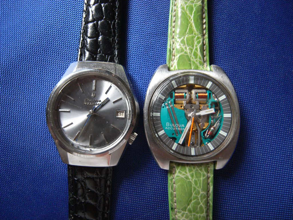 accutron and spaceview